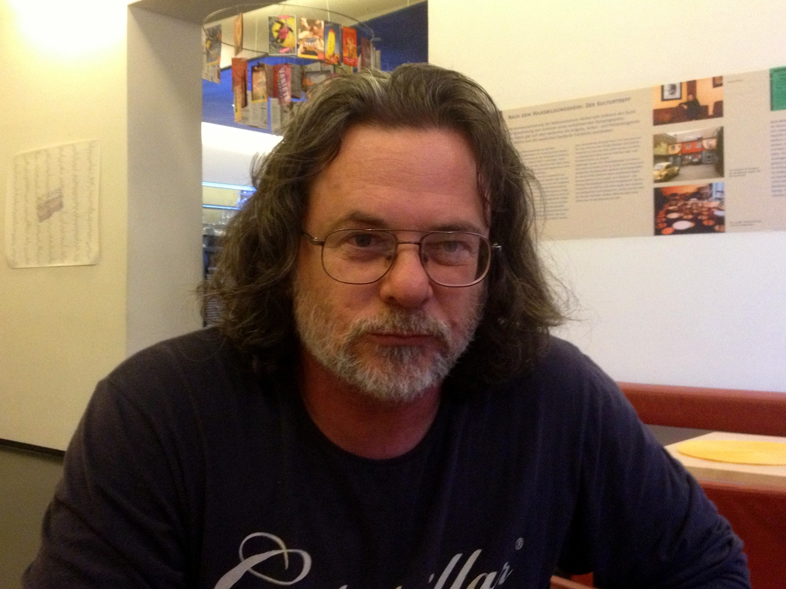 Eduardo Del Llano, May 2013 in Frankfurt, Germany